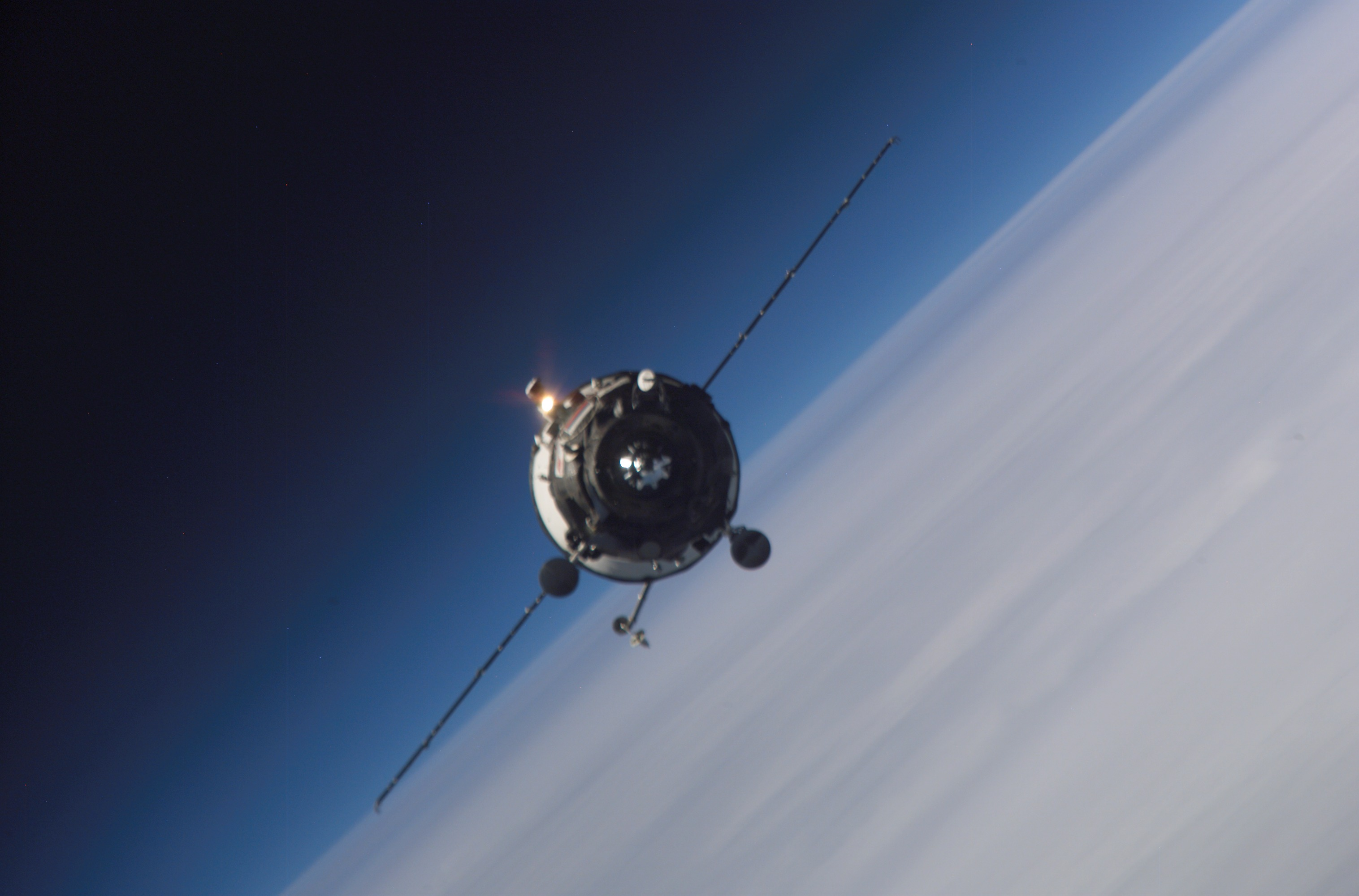 Backdropped by Earth’s horizon and airglow, an unpiloted Progress supply vehicle approaches the International Space Station. The Progress 21 resupply craft launched at 11:03 a.m. (CDT) on April 24, 2006 from the Baikonur Cosmodrome in Kazakhstan to deliver 2.5 tons of food, water, fuel, oxygen, spare parts and other supplies to the Expedition 13 crewmembers onboard the station. Progress docked to the aft port of the Zvezda Service Module at 12:41 p.m. (CDT) on April 26 as the spacecraft and the station flew approximately 219 miles above a point near Greece.